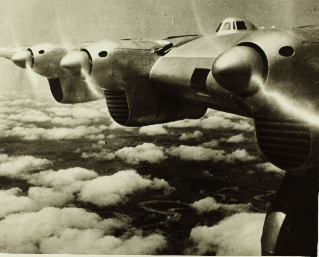 Tupolev ANT-20